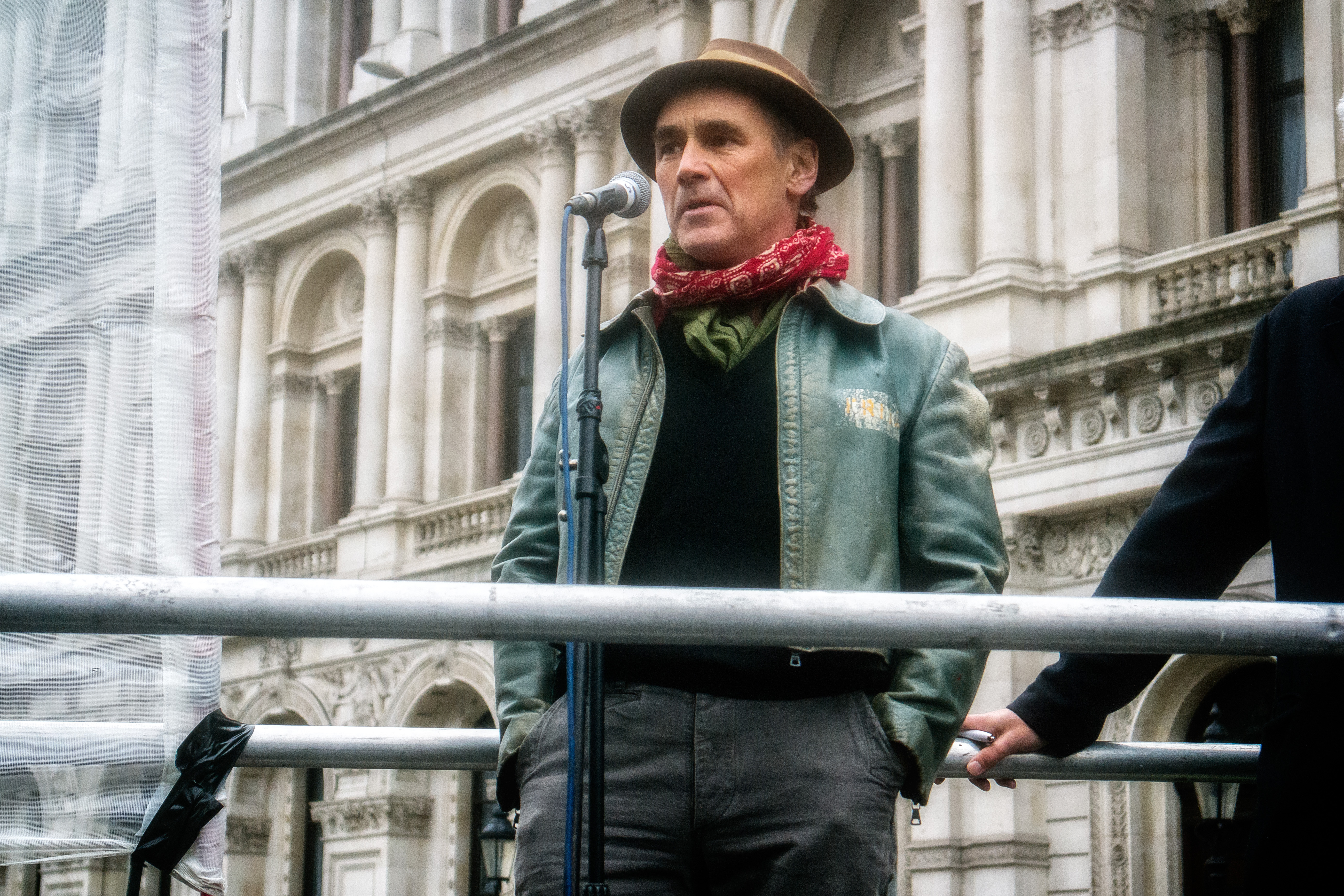 Photos taken at the Stop the War protest at Whitehall in London.